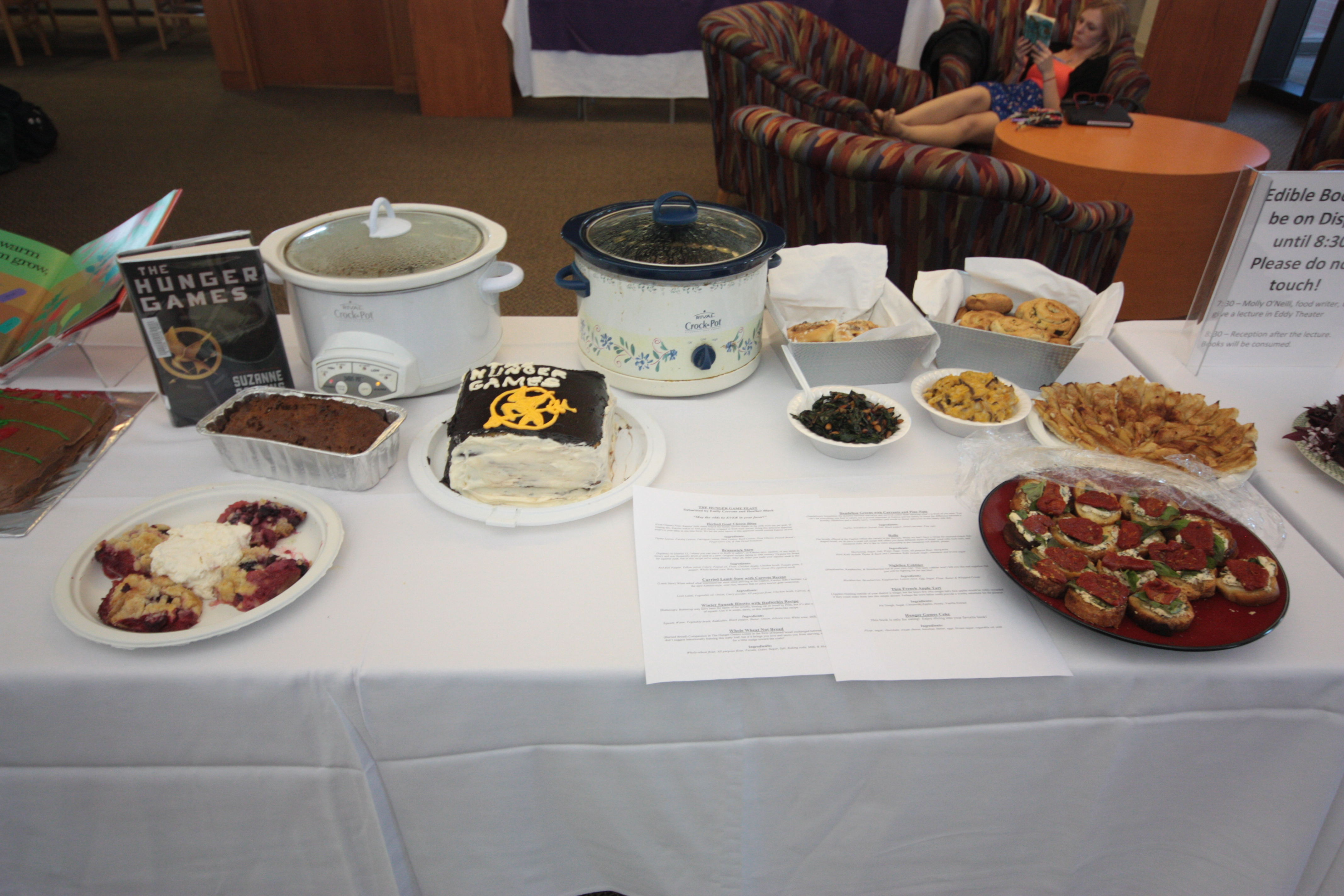 The Hunger Games exhibit, from the Chatham University Jennie King Mellon Library Edible Book Festival.